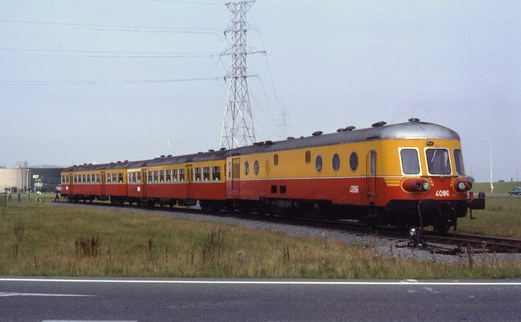 Photo taken at Antwerpen Docks on 1 August 1992. This was a joint charter with a Belgian based society and UK overseas tour operator Along Different Lines. Using a preserved 3-car diesel hydraulic SNCB Class 40 set built in 1957from SNCB heritage stock. As the name suggests, the tour visited many of the freight only lines to different areas of the large port of Antwerpen